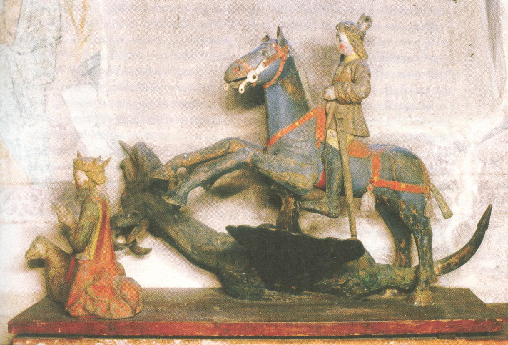 Saint George and the dragon, from Hattula in Finland.